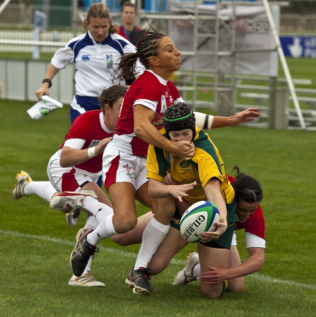 Nicole Beck takes an impact from Non Evans, as she scores a try for the Aussies against the Welsh. ..the score was Wales 12 Australia 26 in 2010